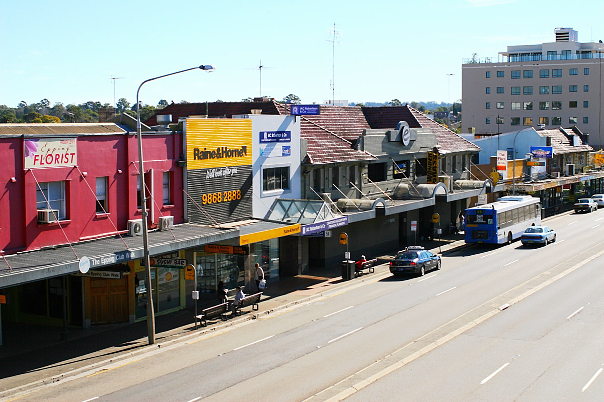 Beecroft Road, Epping, as seen from the old footbridge to Epping Railway Station. 09July2006.